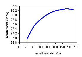 Efficiency of the Biel Solar Car Motor as function of speed